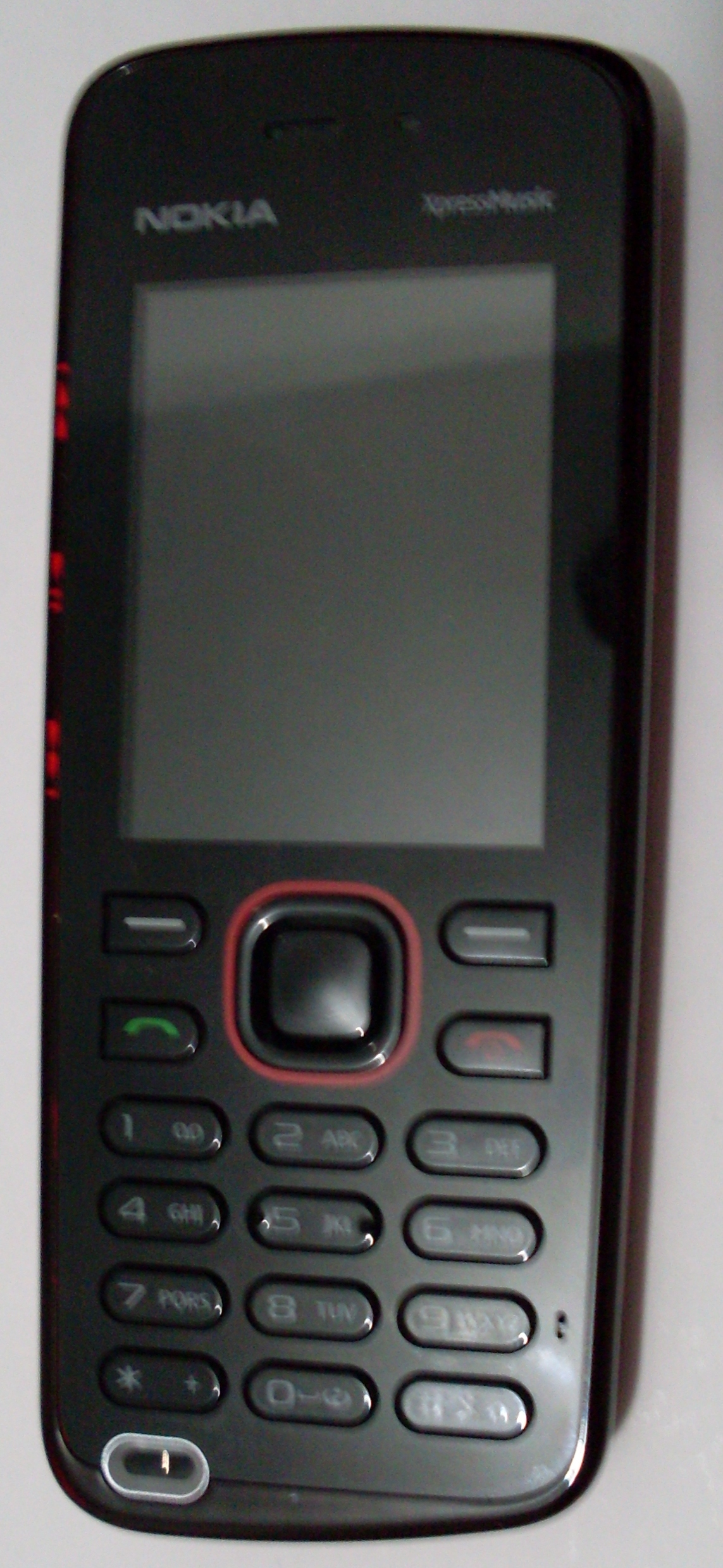 Nokia 5220 phone, front view